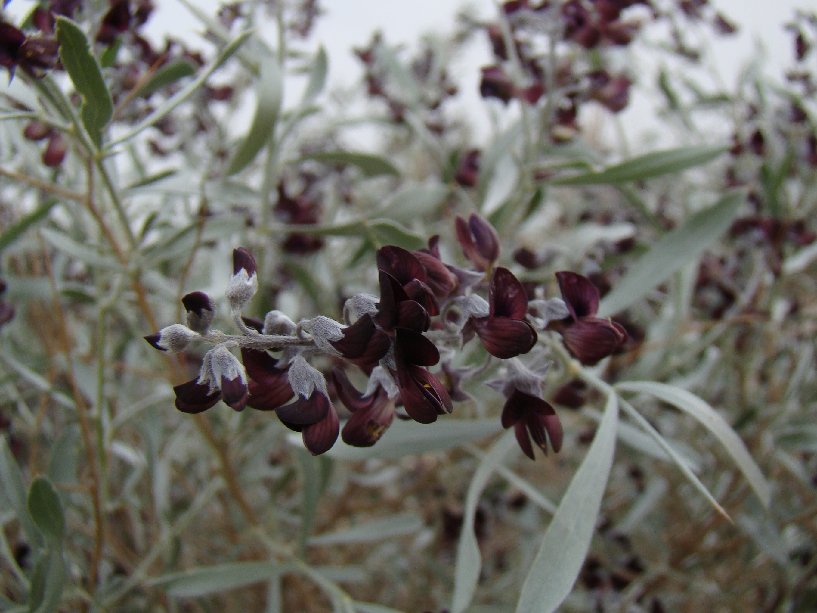 Ammodendron sp. Near Baikonur, Kazakhstan.